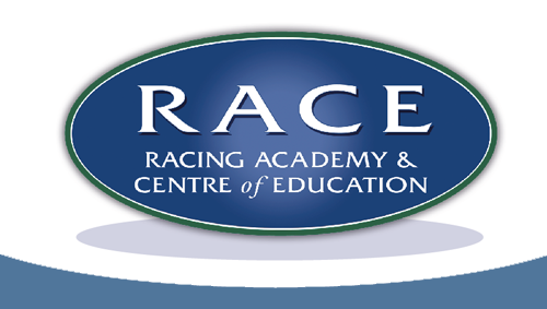 racing academy and centre of education symbol